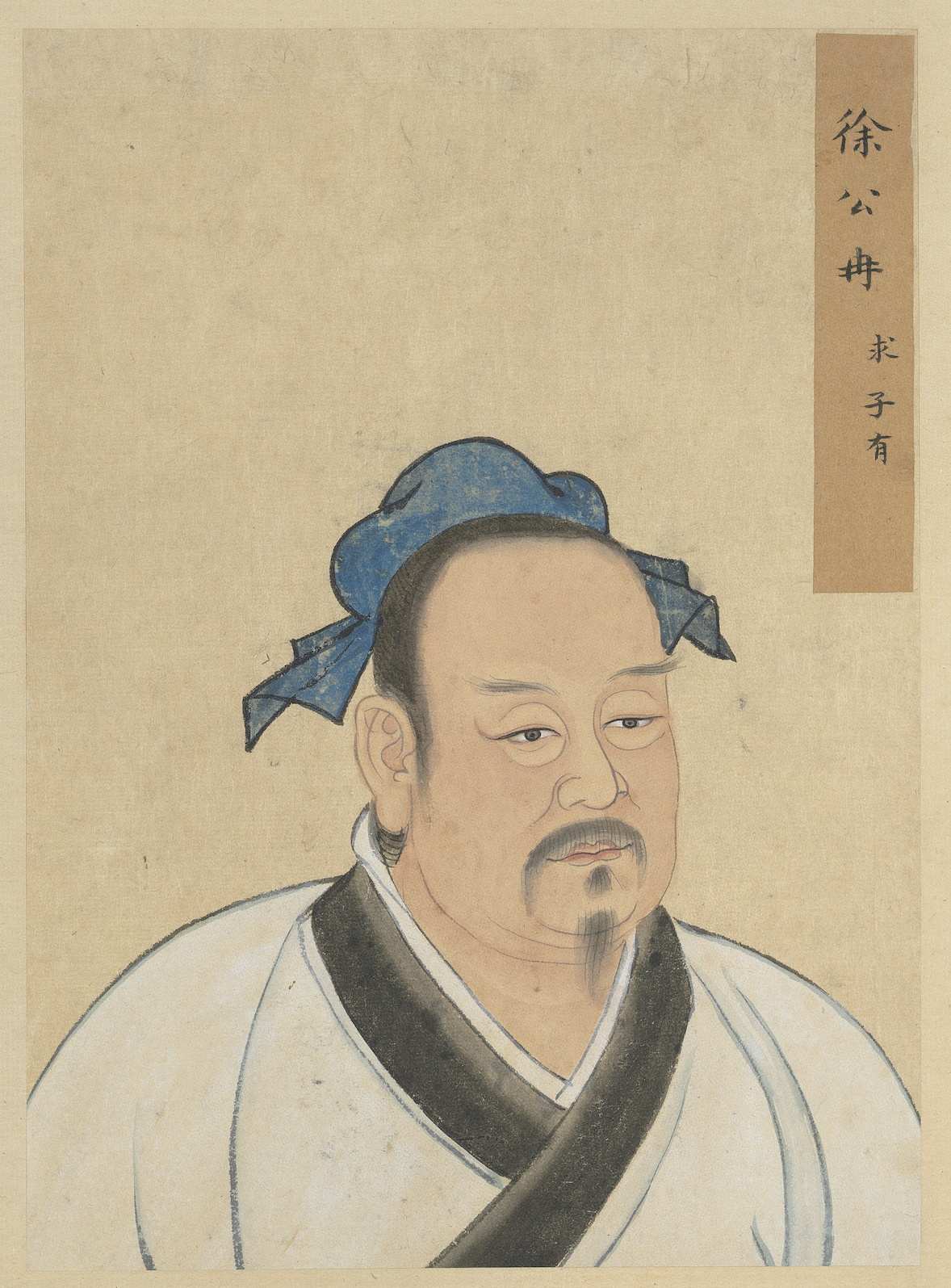 This depicts Ran Qiu (冉求), styled Ziyou (子有), also known as Ran You (冉有).